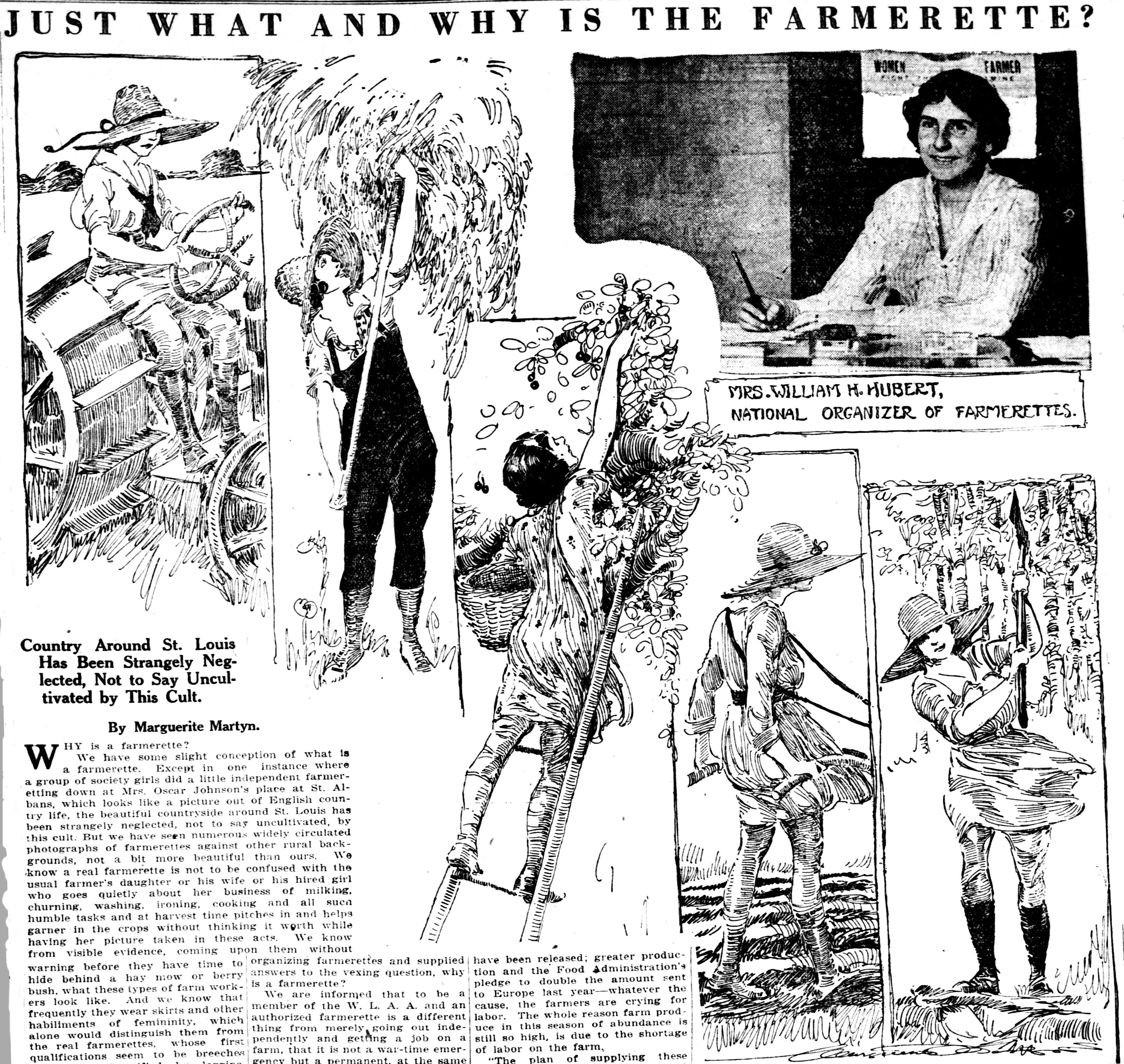 Top part of article by Marguerite Martyn, with drawings by her, and photo of Mrs. William H. Hubert , national organizer of the Women's Land Army of America, from a layout in the St. Louis Post-Dispatch of June 21, 1919.